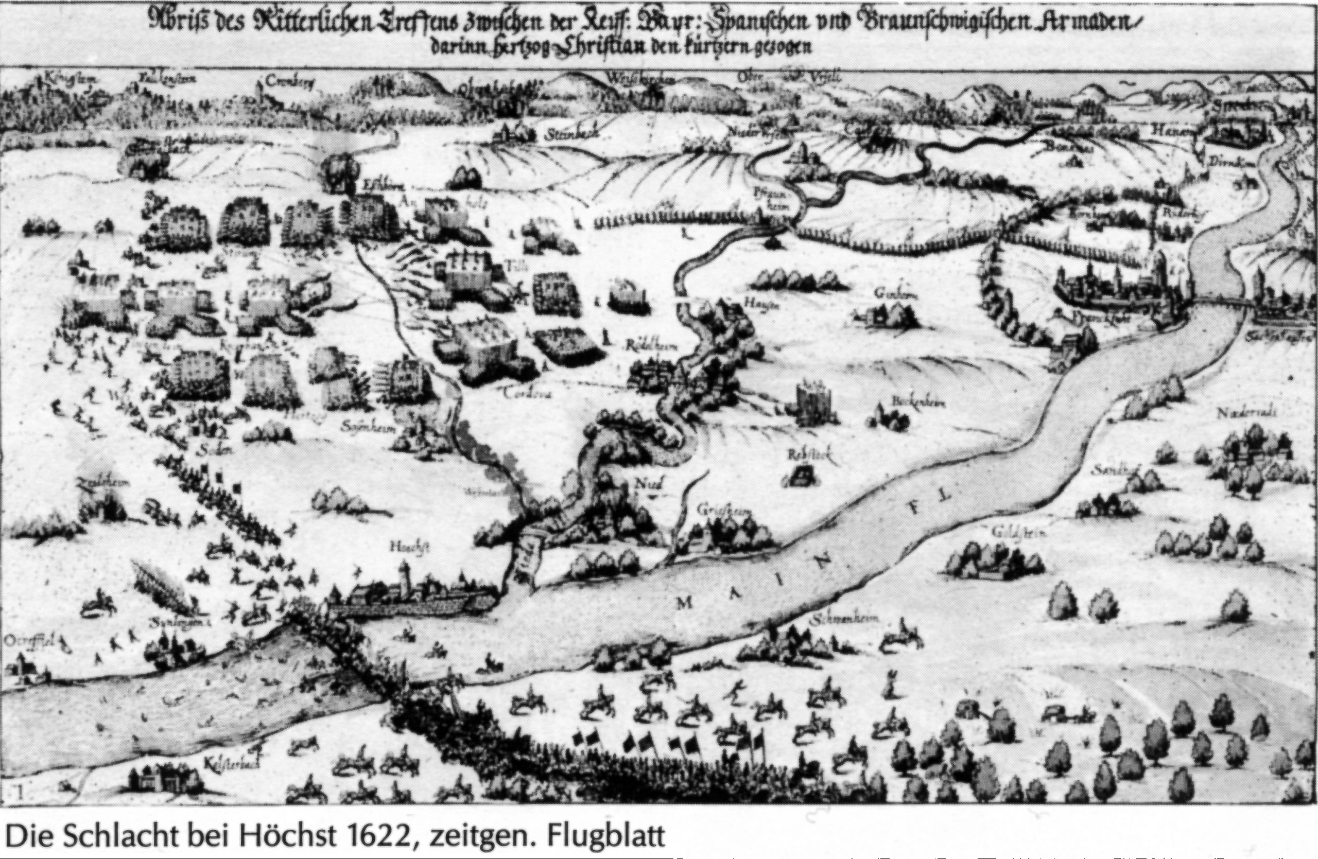 Battle near Höchst, 1622, contemporary picture